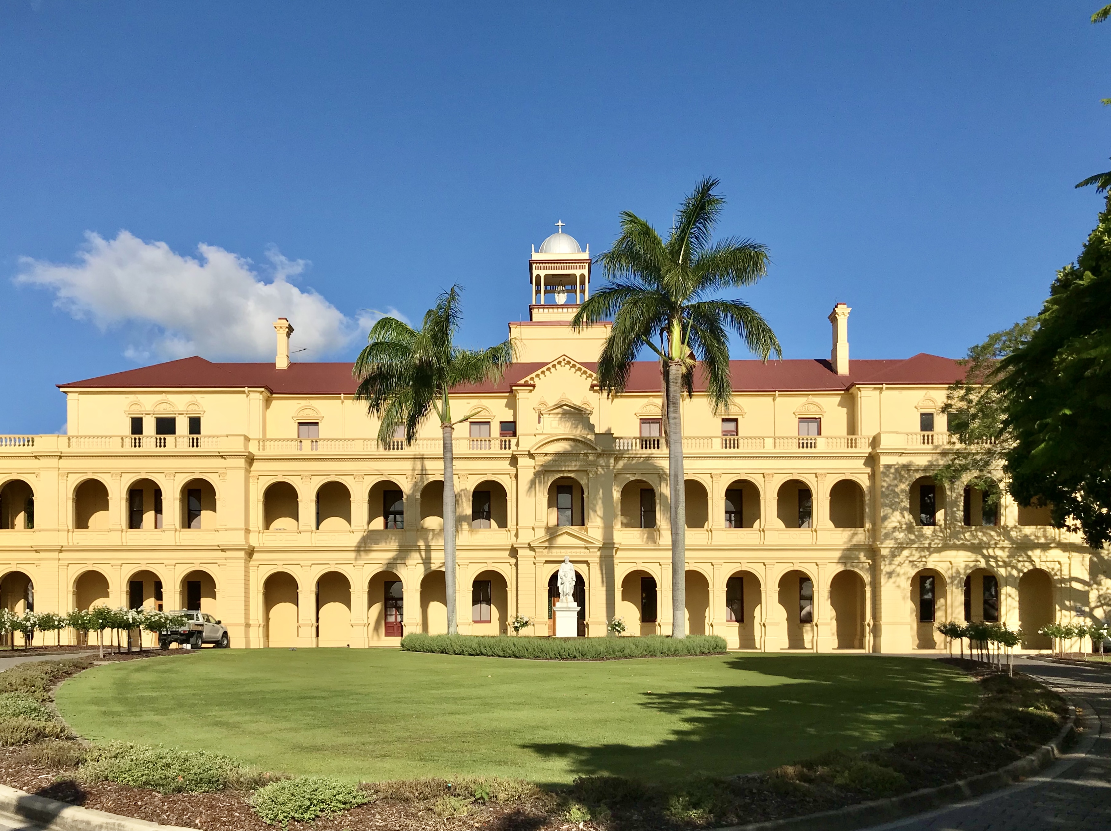 St Joseph’s College, Nudgee main building